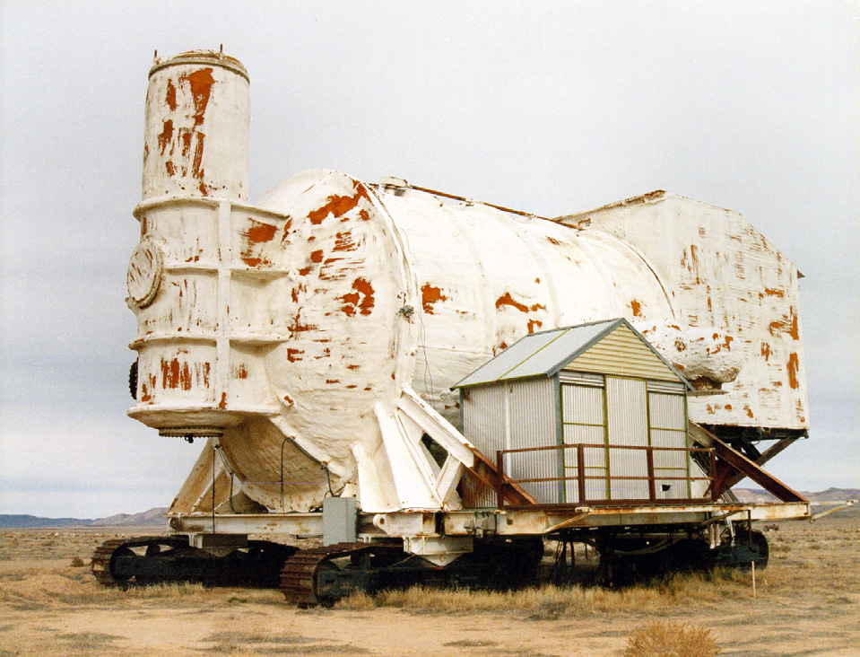 Huron King Test Chamber, located to the right of 3-08 Road in Area 3, 600 meters from its original location. The Huron King test chamber contained a communications satellite and other space-related experiments, and simulated a space environment. It was used for a rare type of Vertical Line of Sight underground test conducted by the Defense Nuclear Agency, forerunner of the Defense Threat Reduction Agency. The device, which was less than 20 kilotons in yield, was detonated on June 24, 1980.